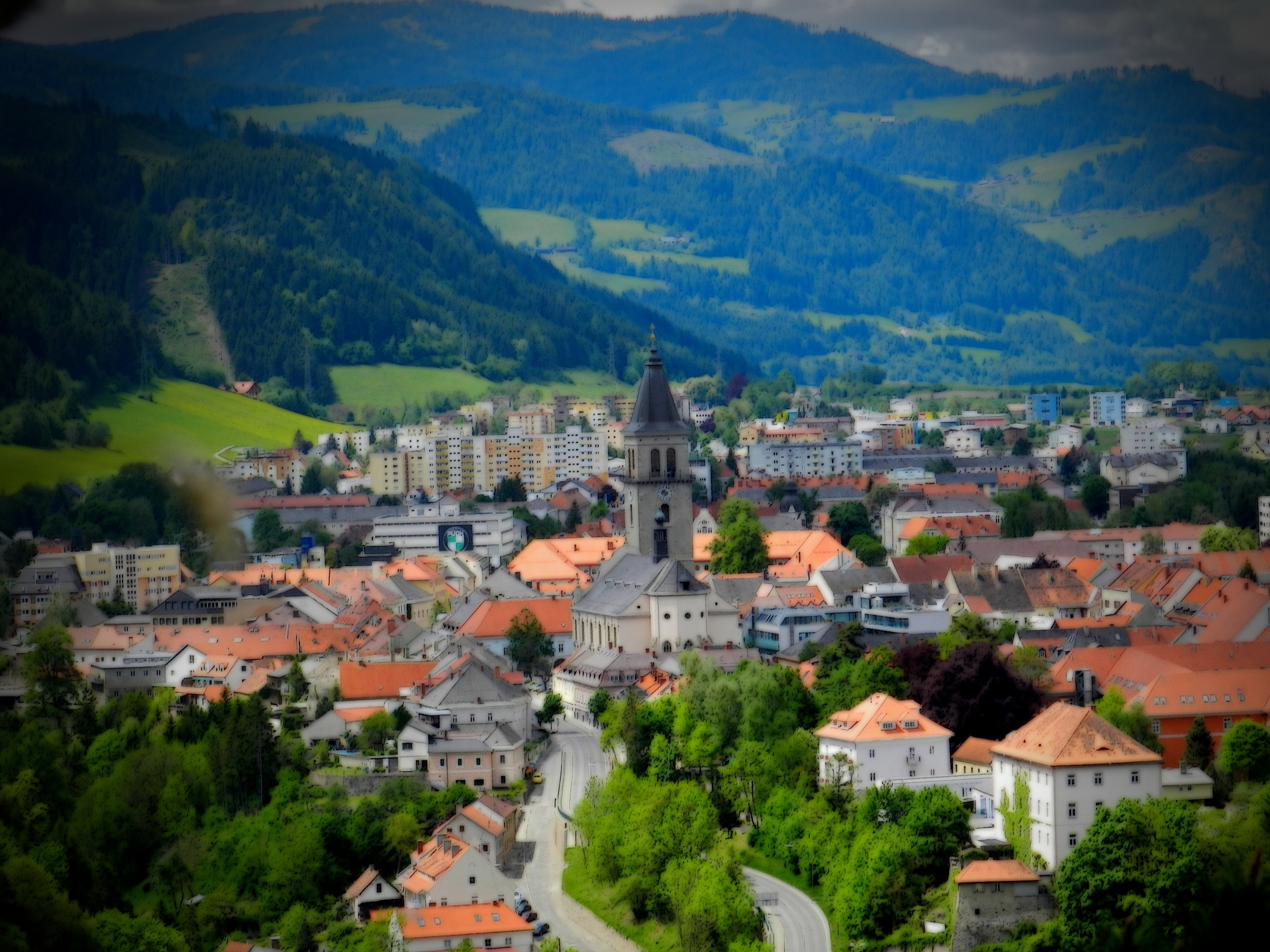 Ausblick auf Judenburg von der Burgruine Lichtenstein. Deutlich erkennbar ist der Judenburger Stadtturm.